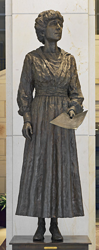 Statue of Jeanette Rankin